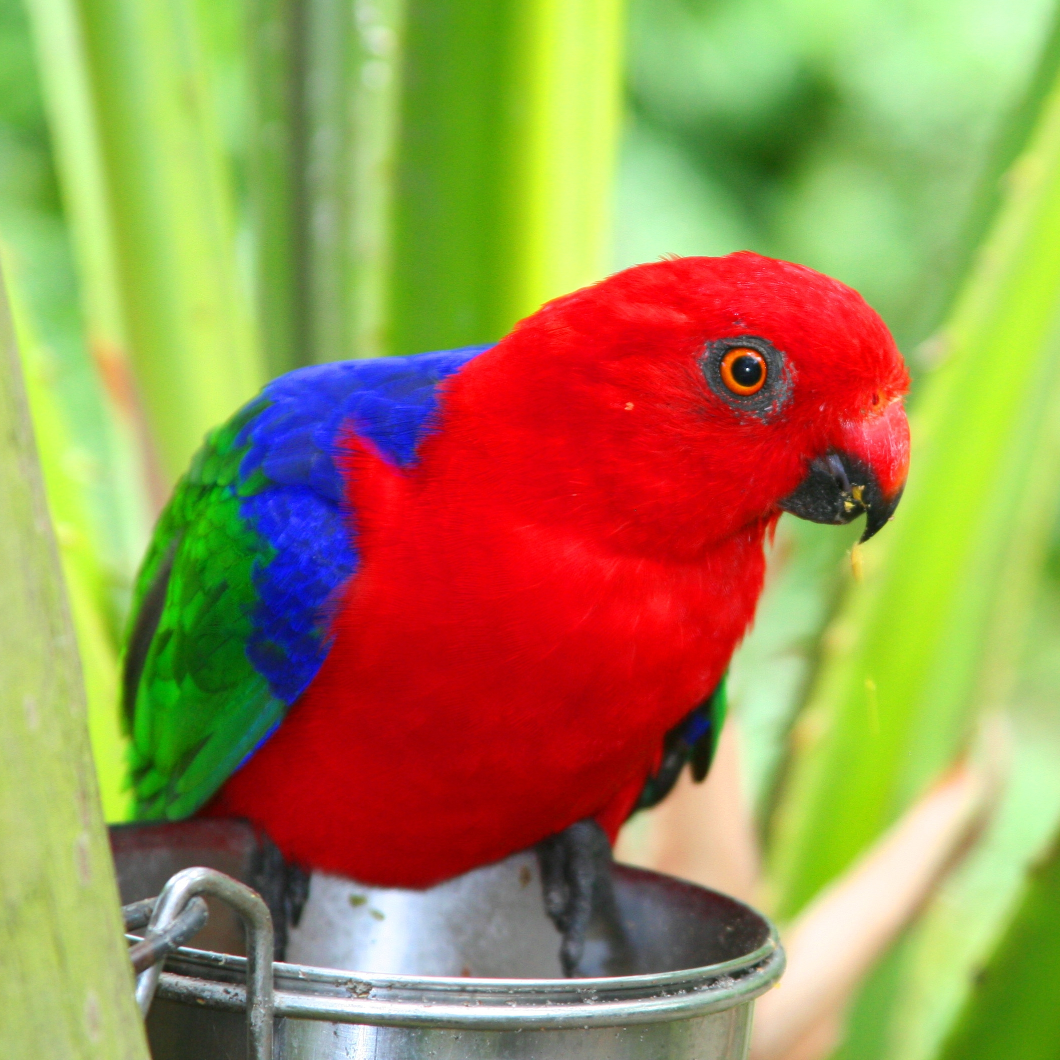 Moluccan King Parrot at Brevard Zoo, Florida, USA.